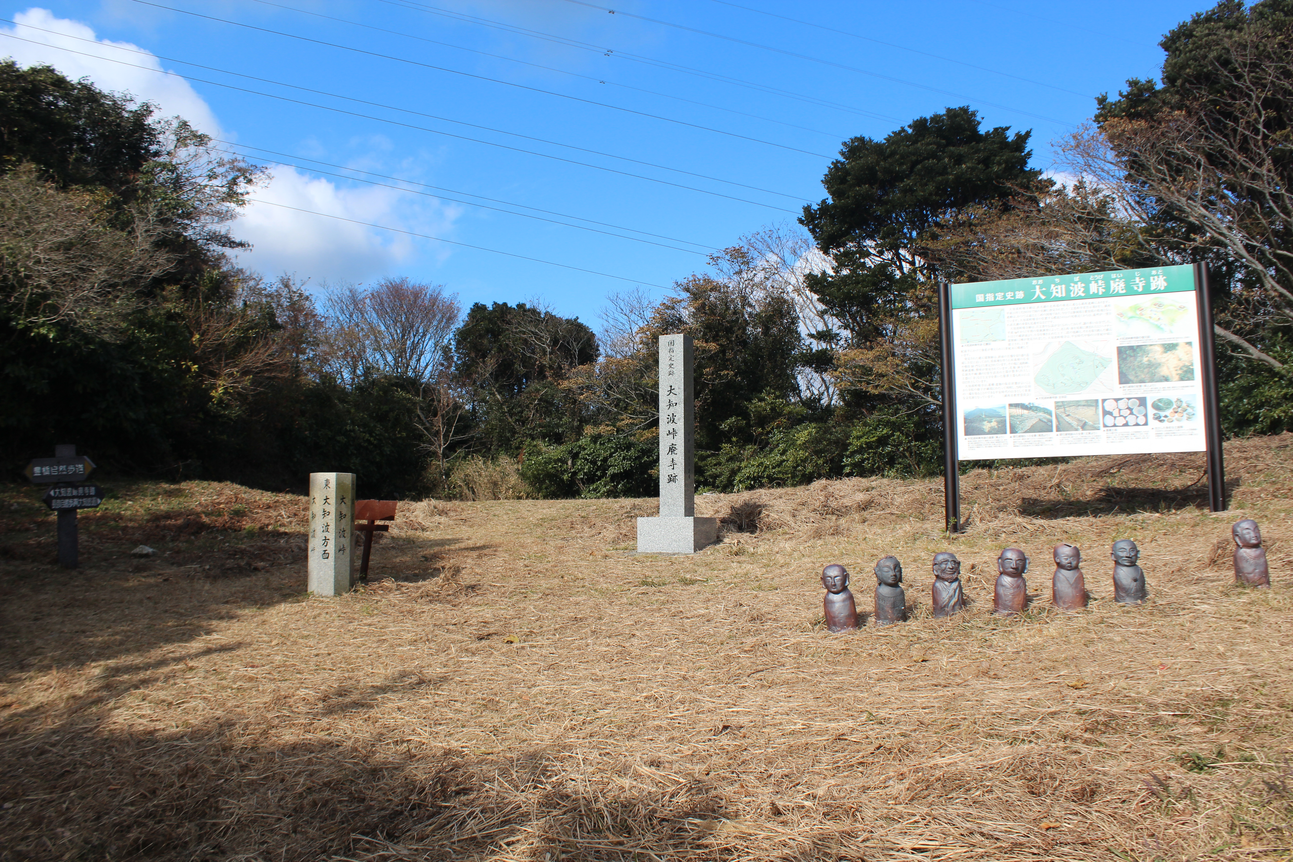 Ochiba Pass in Yumihari Mountains, Kosai, Shizuoka Prefecture, Japan.